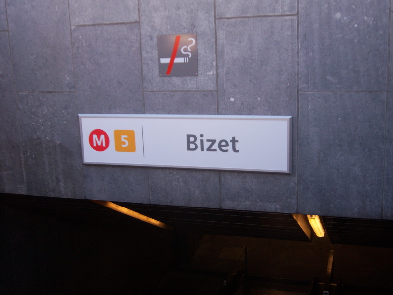 subway station Bizet